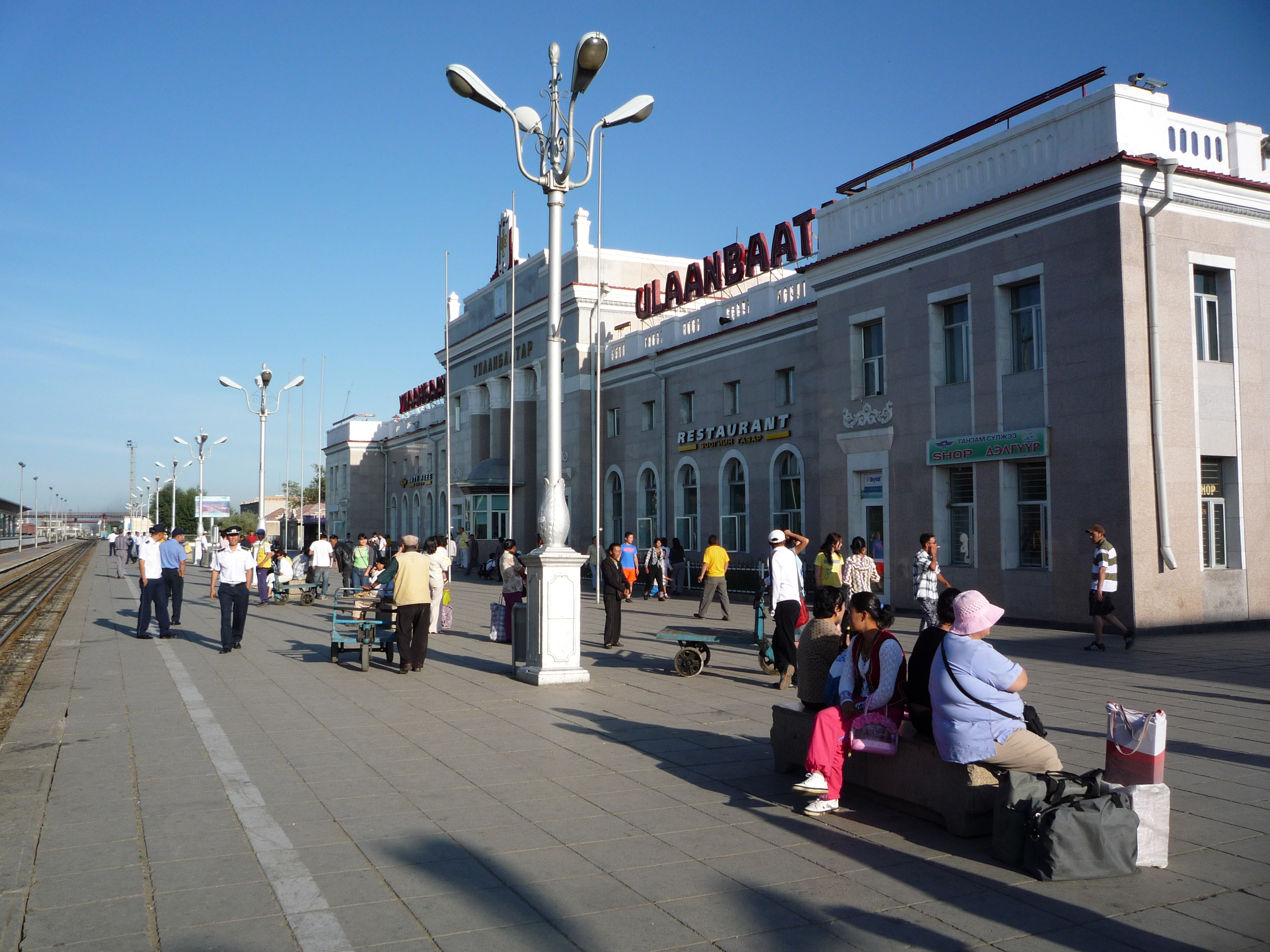 Ulan Bator railway station 2008 southern side